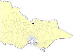 Location of the Town of Kyabram (pre-1994) within Victoria.